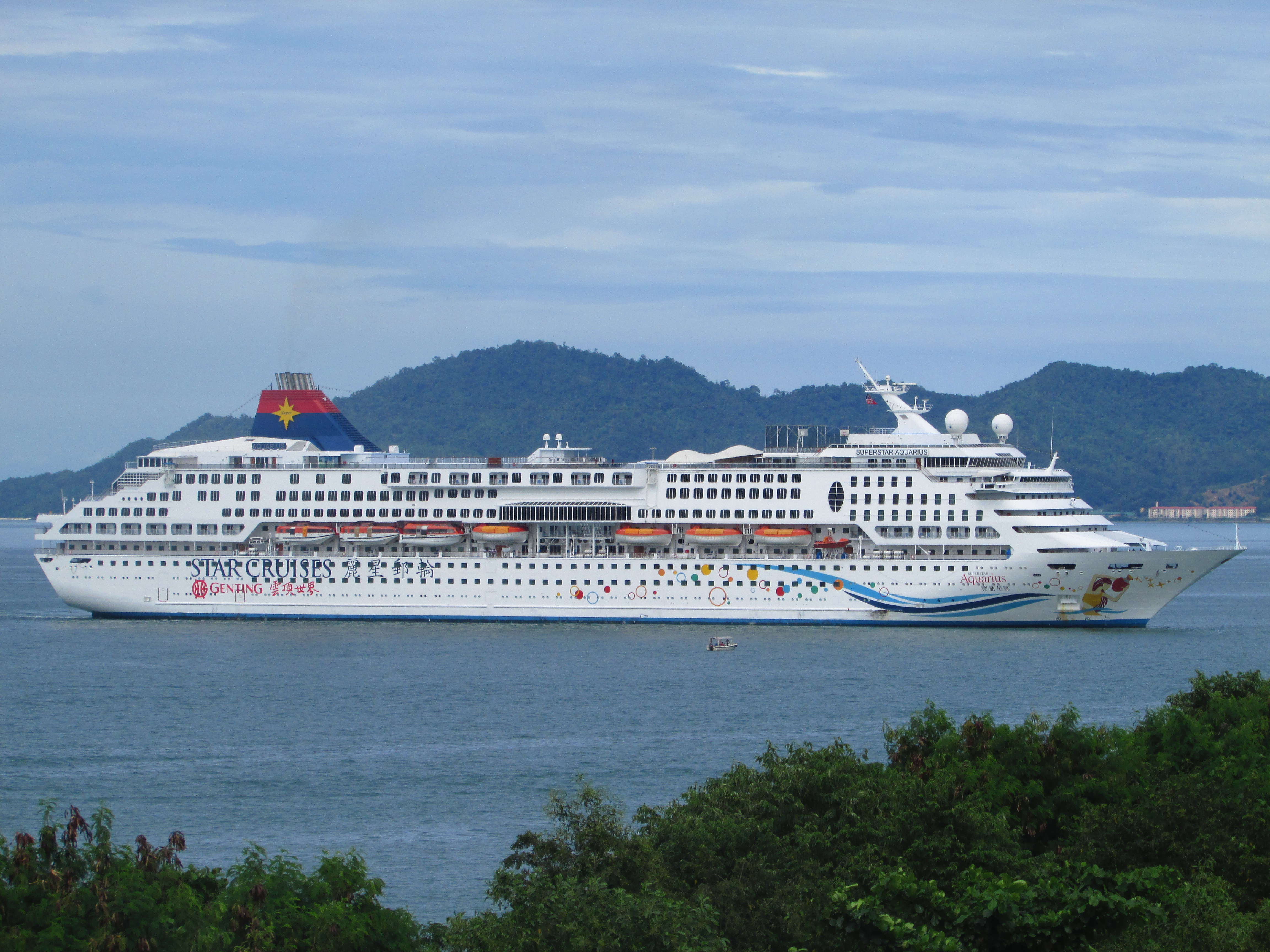 Cruise ship Superstar Aquarius, Kota Kinabalu